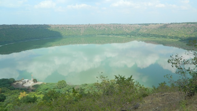 Kamalja Devi Temple At The Lonar Lake